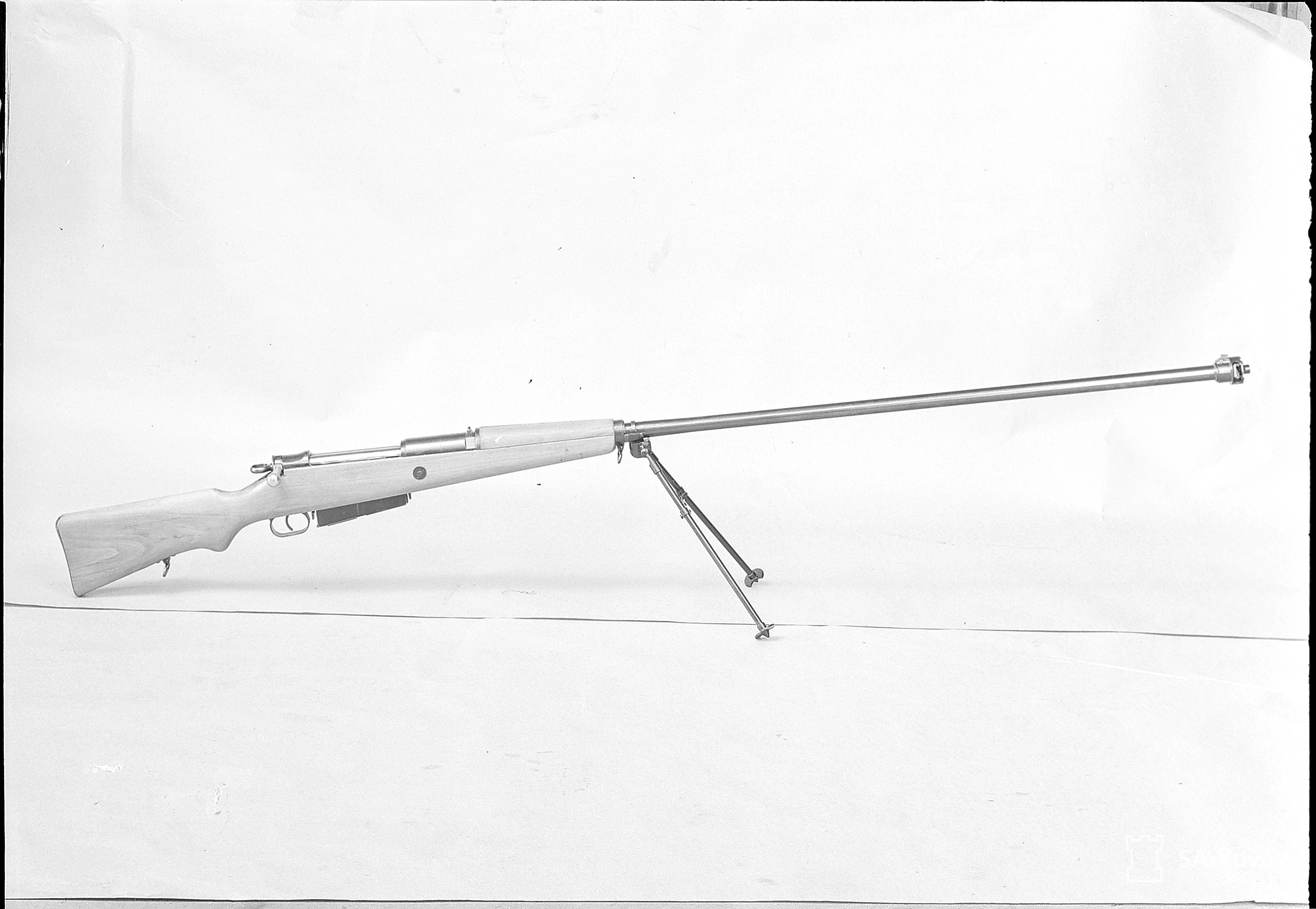 Polish Wz. 35 anti-tank rifle, used by Finnish army under designation 8 mm pst kiv/38